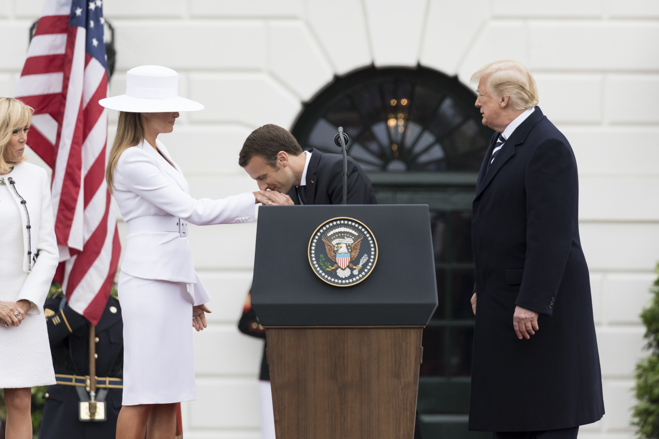 The arrival ceremony of the President of France and Mrs. Macron (Official White House Photo by Andrea Hanks)